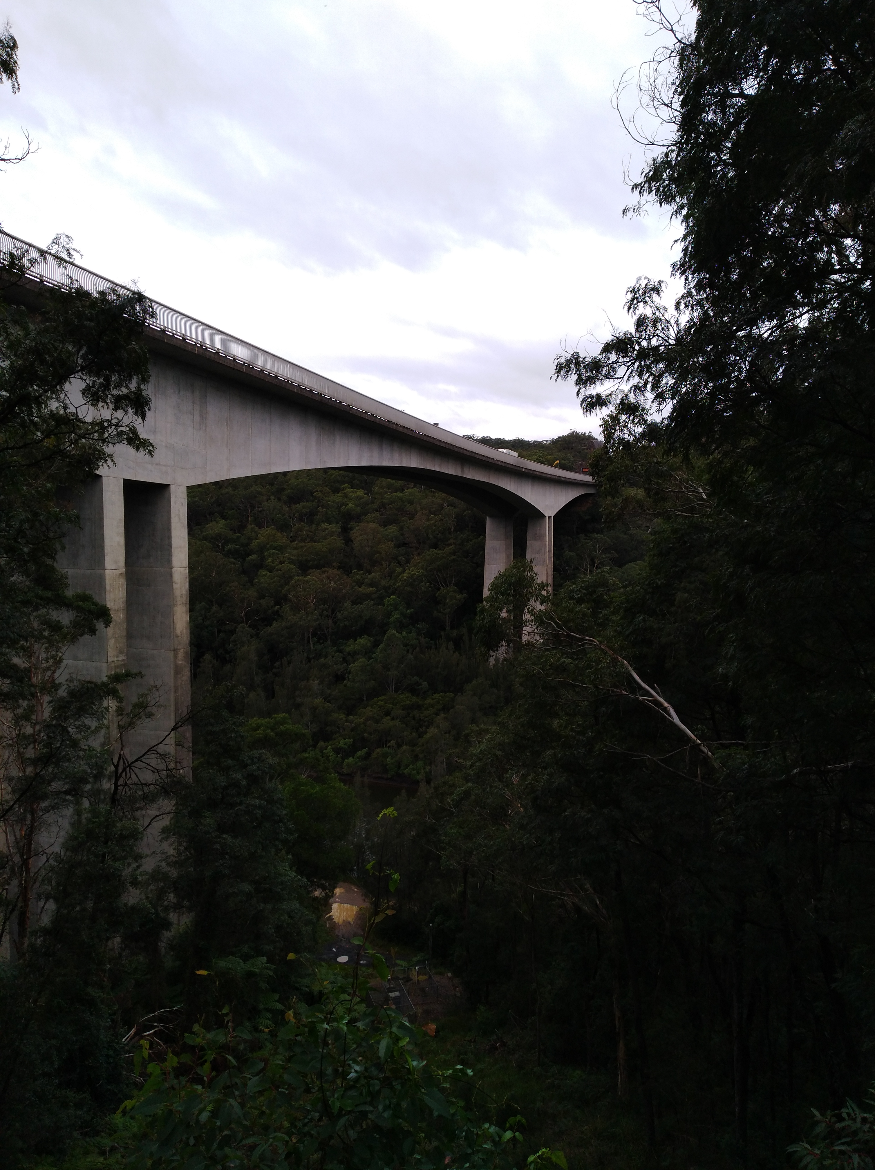 Mooney Mooney Bridge from Beehive Trail, Brisbane Water National Park